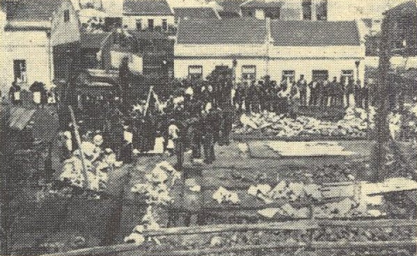 Cerimony of the cornerstone of the Escola Profissional de António Vasconcellos Correia (António Vasconcellos Correia Professional School), in Campolide, Lisbon, Portugal, on the 16th of April 1933. This photograph was published on the Gazeta dos Caminhos de Ferro magazine No. 1089, of the 1st May 1933, and scanned by the Hemeroteca Municipal de Lisboa.